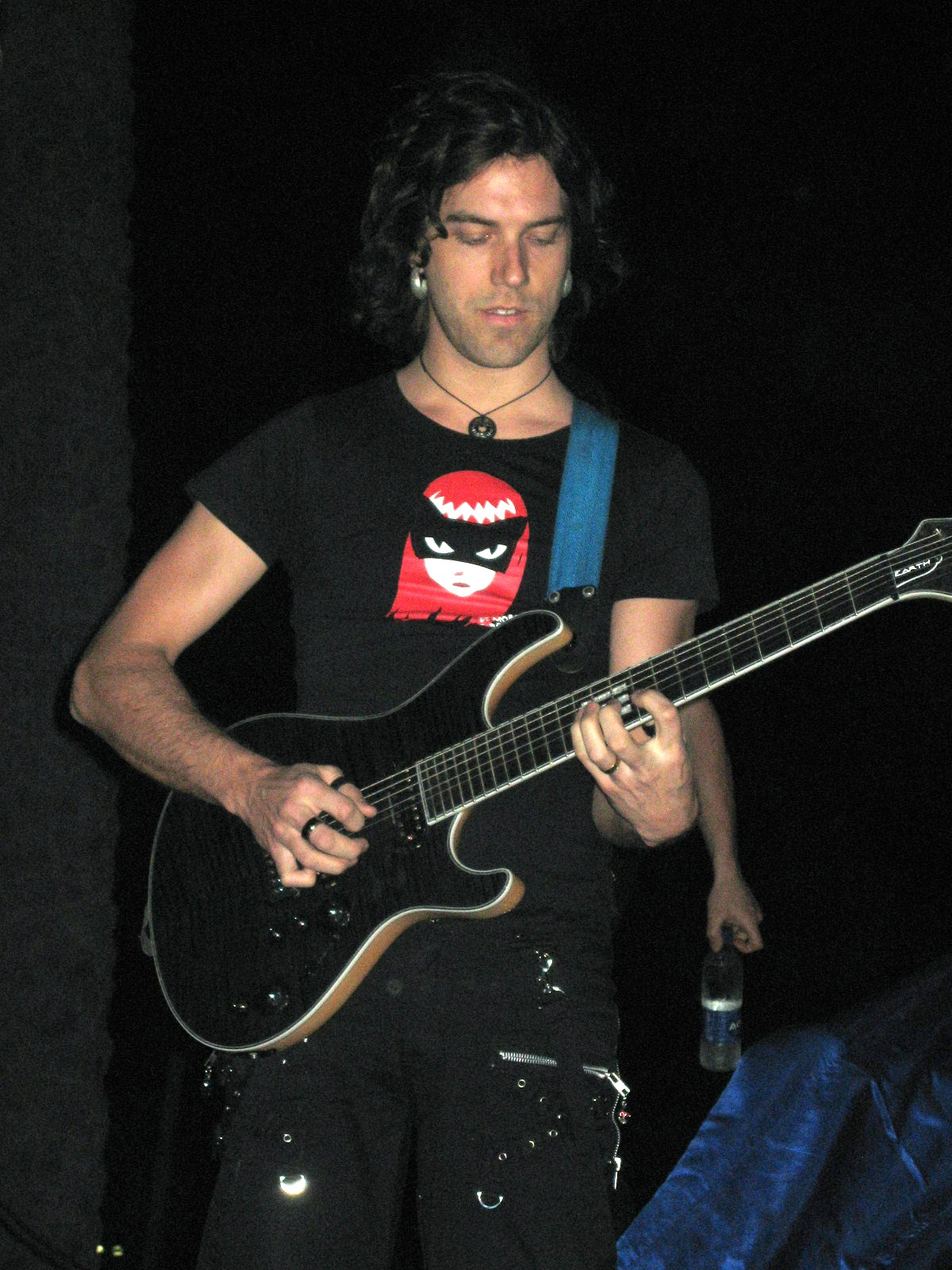 Picture of Daniel Gildenlöw live on tour with Pain of Salvation.